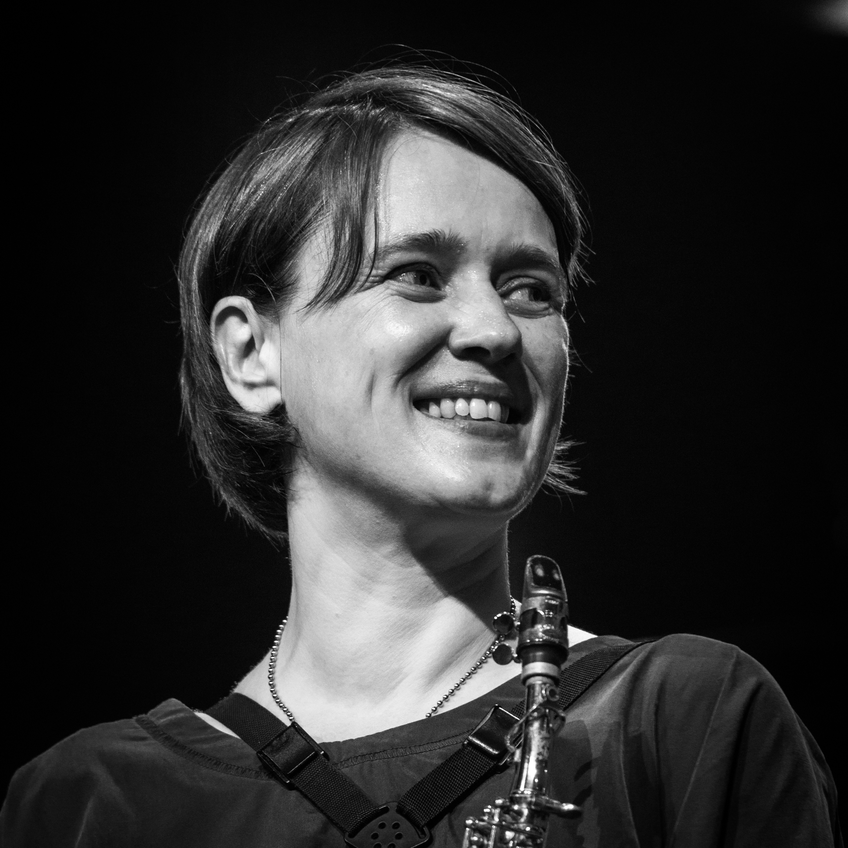 Jazz saxofonist Ingrid Laubrock at the Moers Festival 2017